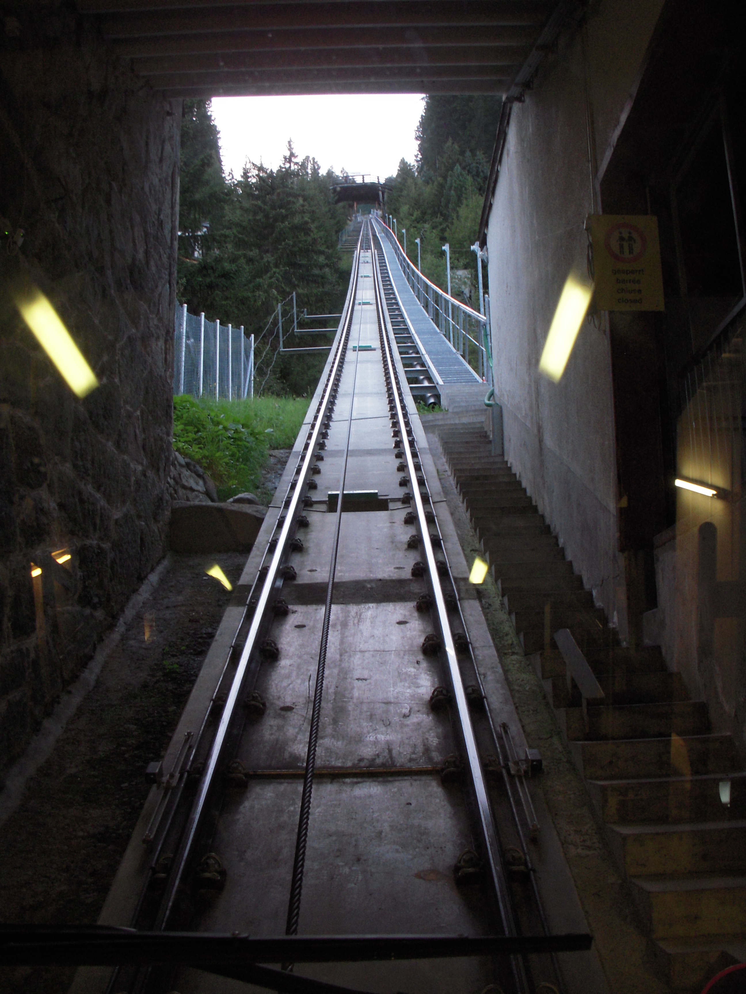 The funicular Schatzalpbahn in Davos Platz. August 15, 2012.